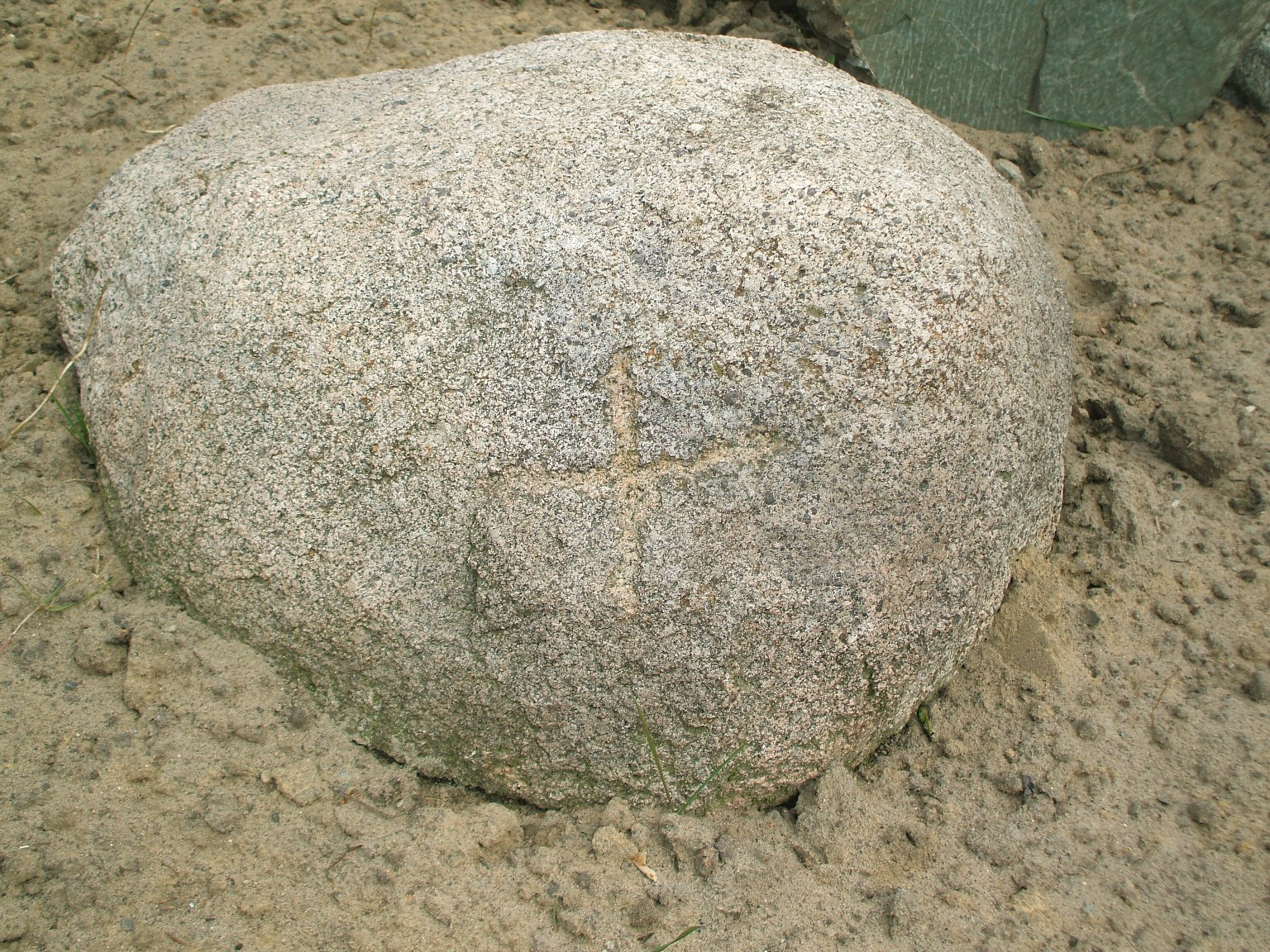 Foundation Stone with a cross from the Karaliova Slabada-2 village (Krasnauka village Council, Svietlahorsk district, Homiel region, Belarus). Museum of Svietlahorsk town; 17 century.